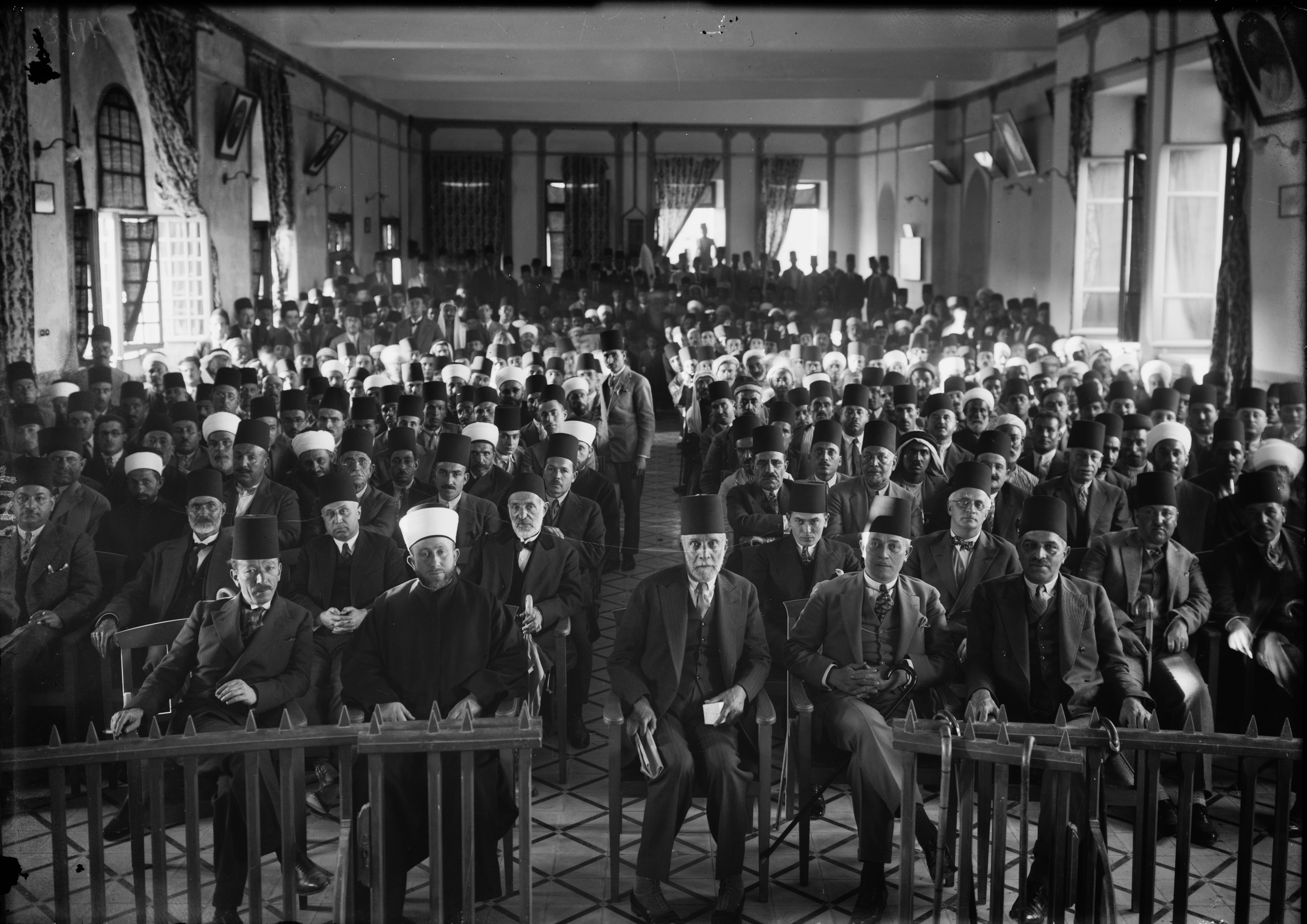 Arab protest delegations, demonstrations and strikes against British policy in Palestine (subsequent to the foregoing disturbances [1929 riots]). An Arab "protest gathering" in session. In the Rawdat el Maaref hall. From left to right : unknown - Amin al-Husayni - Musa al-Husayni - Raghib al-Nashashibi - unknown